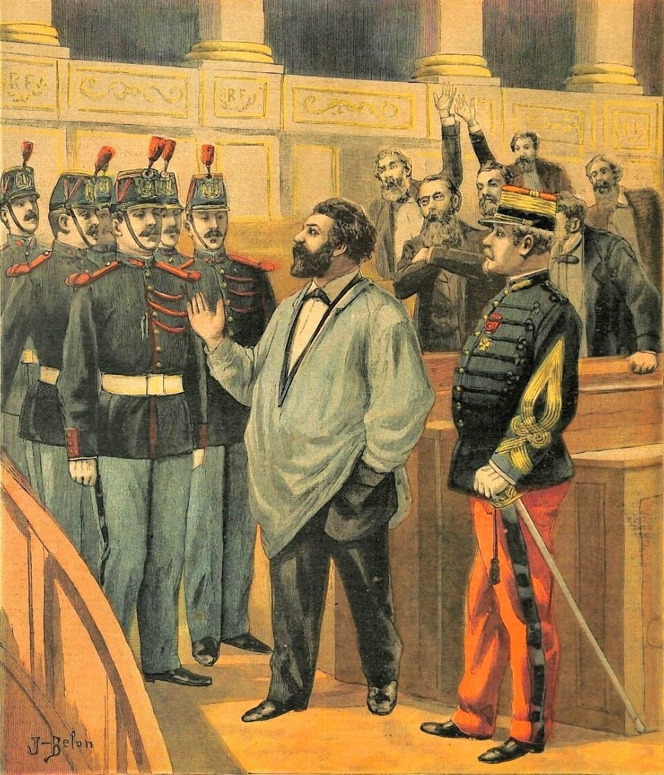 Christophe Thivrier, first socialist mayor in the world, is evicted from the french Chamber of Deputies.